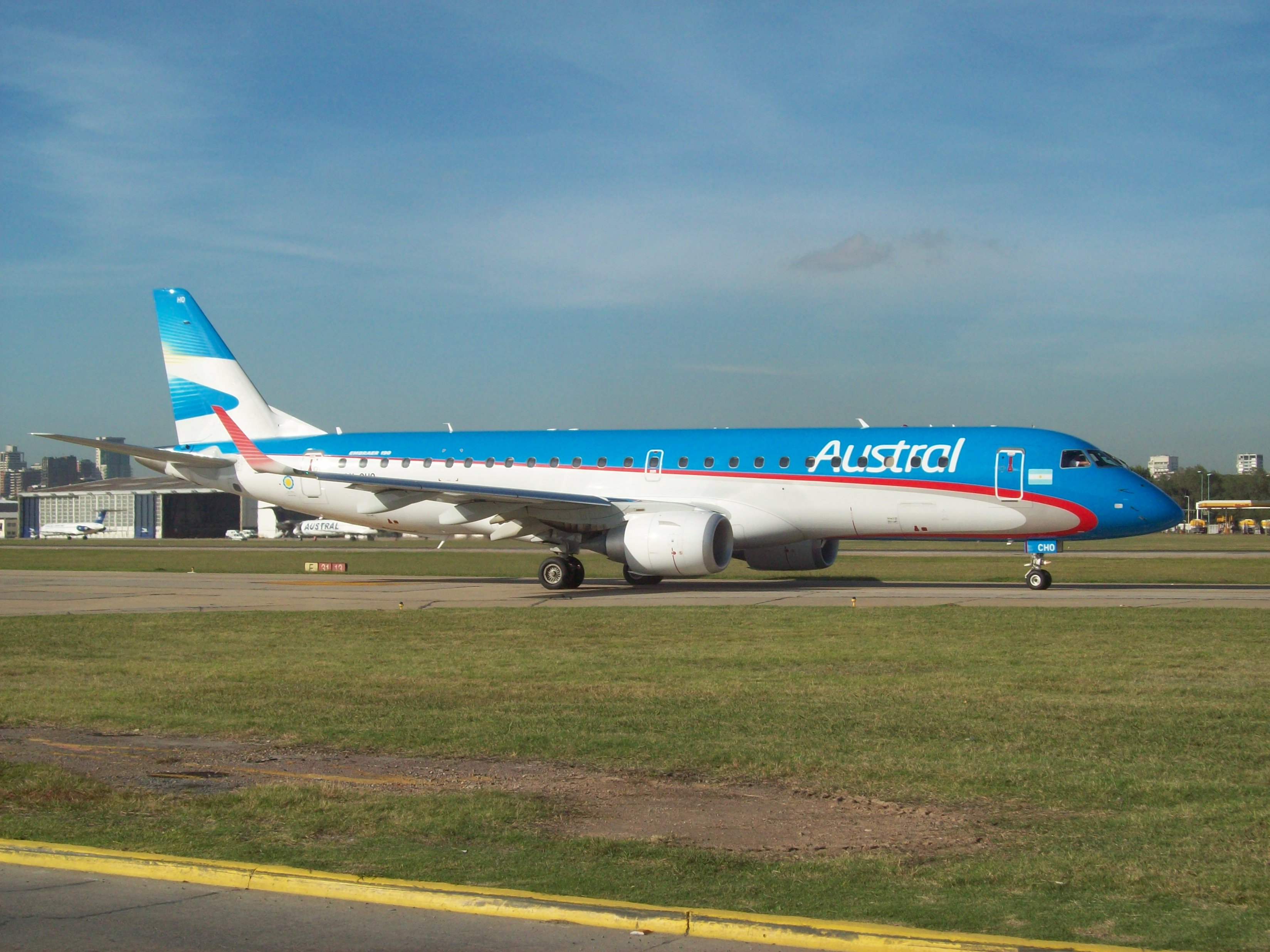 LV-CHO, an Austral Líneas Aéreas Embraer 190, is seen here on the taxiway at Aeroparque Jorge Newbery, Buenos Aires, Argentina.